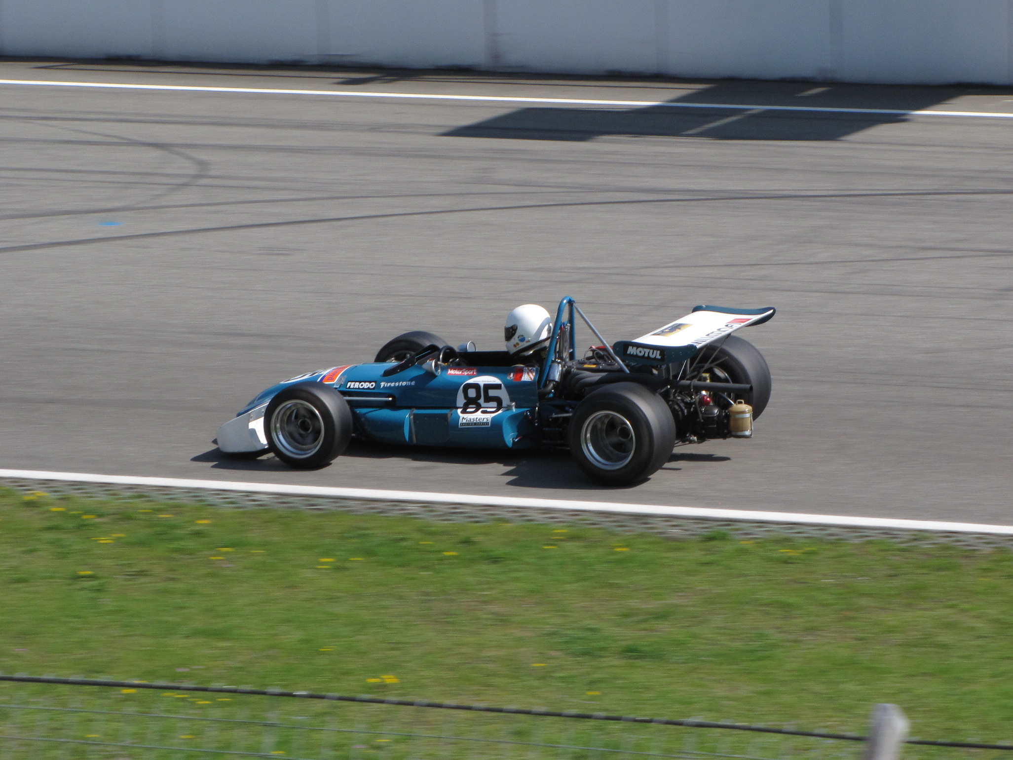 Tecno T70 running in Historic Formula 2 race at Hockenheim Historic 2010